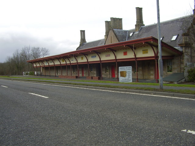 Melrose Railway Station Closed in the 1960s, the station has been preserved and is now retail units.